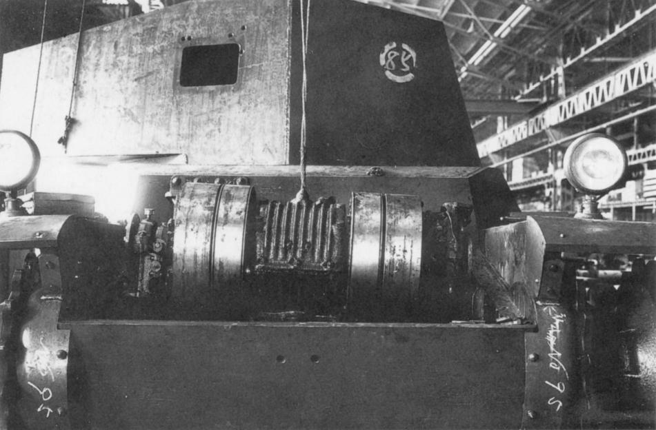 Type 3 Chi-Nu tank during the assembly process